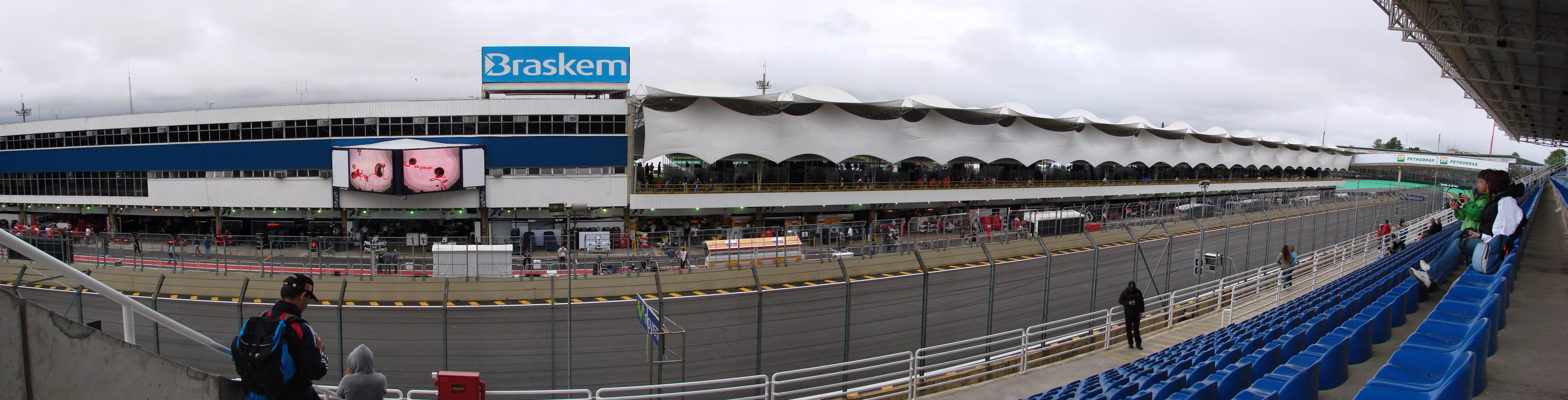 Panorama of Autódromo José Carlos Pace (Interlagos) main straight, taken from M grand stand, during friday practice for the 2009 Formula One Grande Prêmio Petrobras do Brasil (Brazilian Grand Prix)